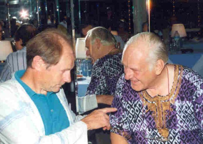 Bo Lindgren, Norman Macleod, Chess composers at the closing banquet of the PCCC-Session 1990 in Benidorm, Spain